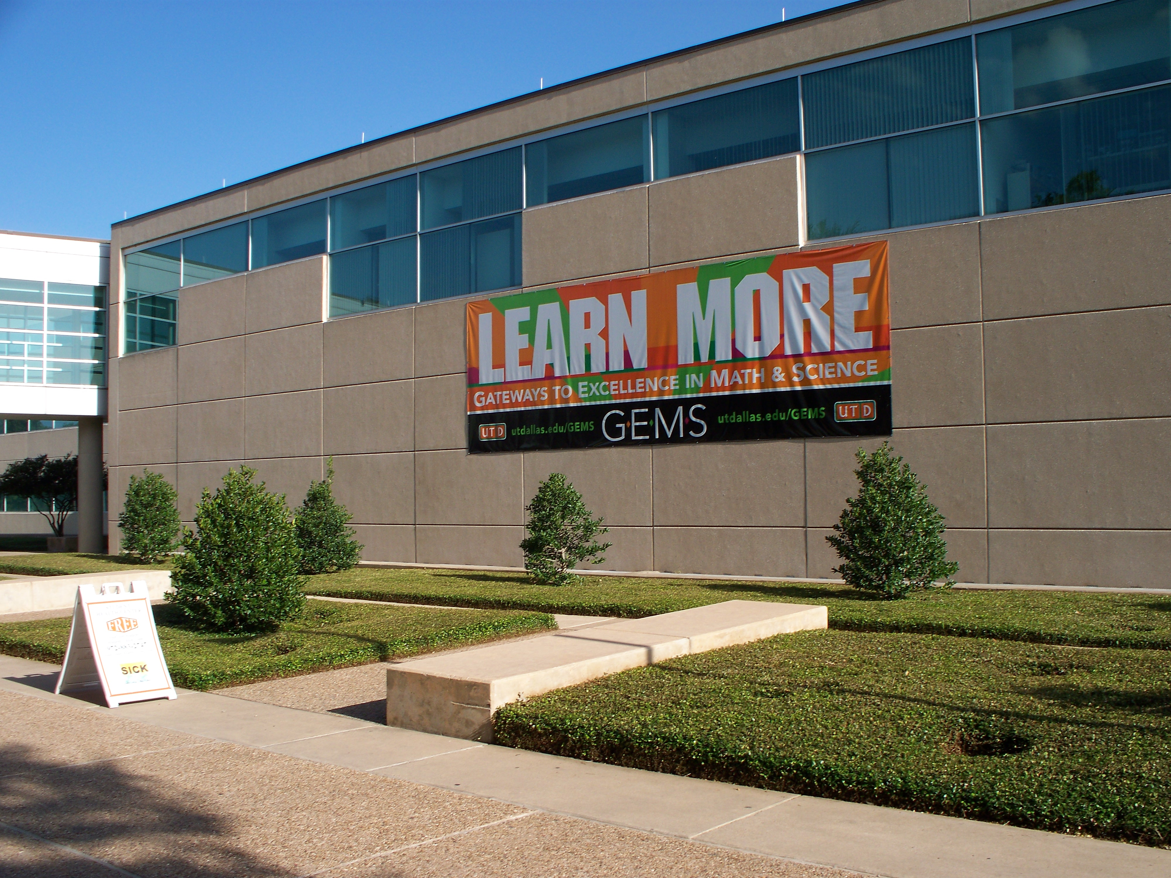 UT Dallas Gateways to Excellence in Math and Science